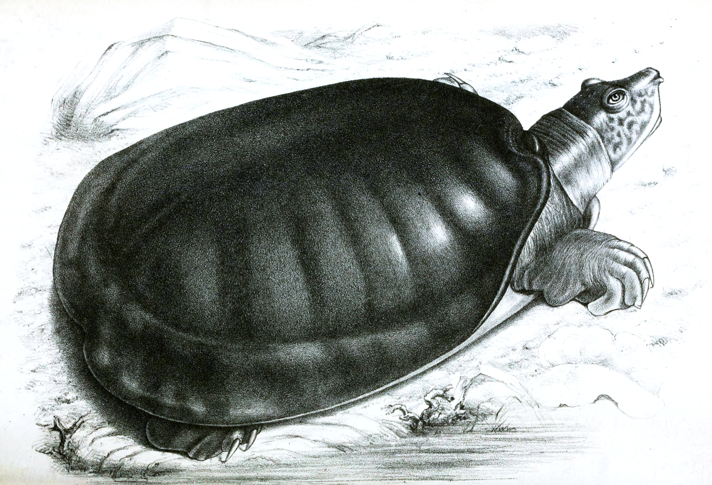 Senegal Soft-shelled Turtle, young adult